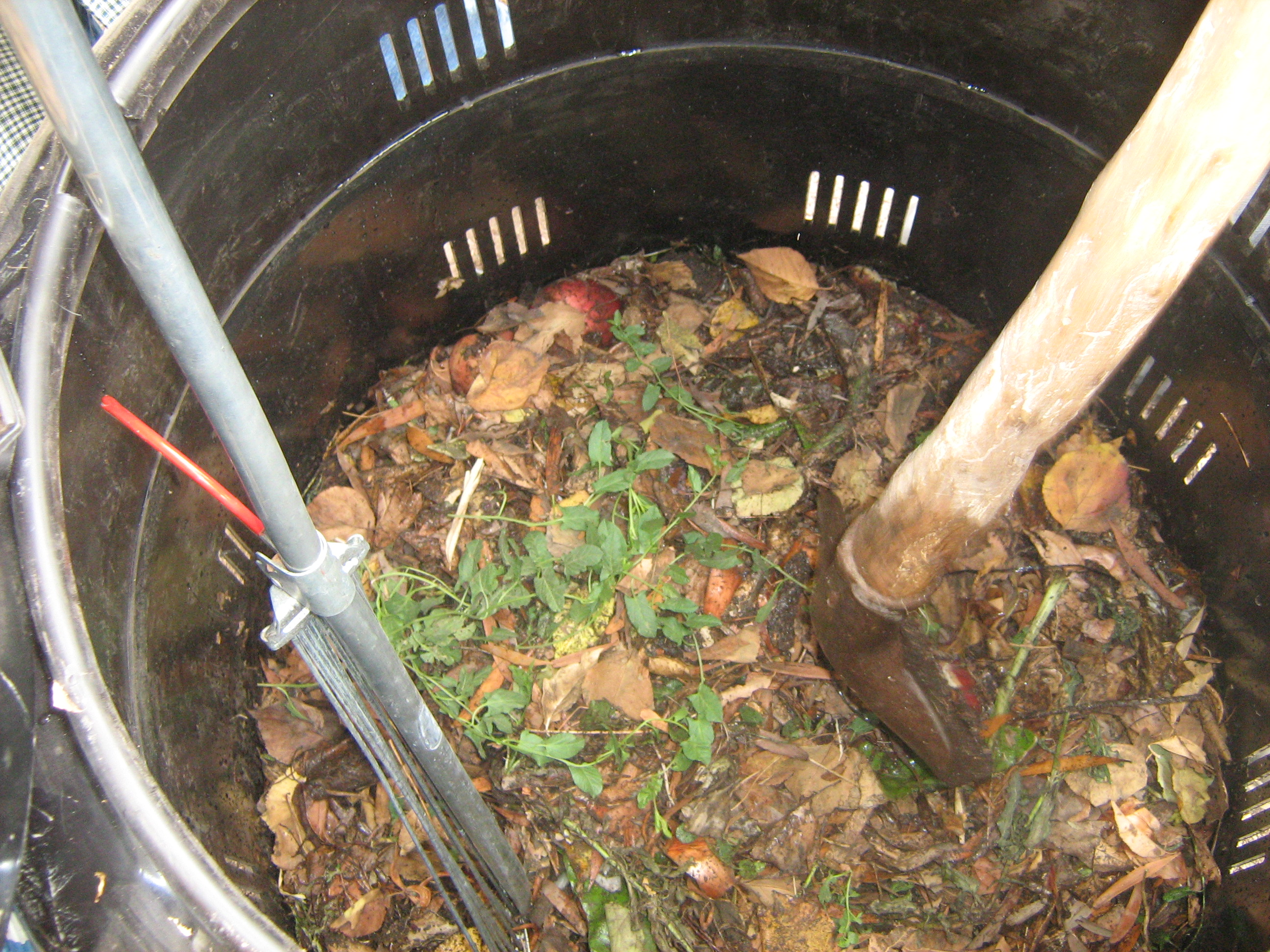 Composting in the Escuela Barreales.